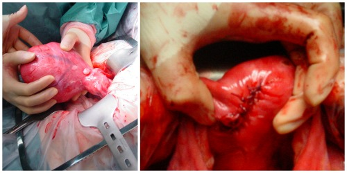 On the left, large subserosal myoma in the left uterine cornu. On the right, the same uterus after an open myomectomy.